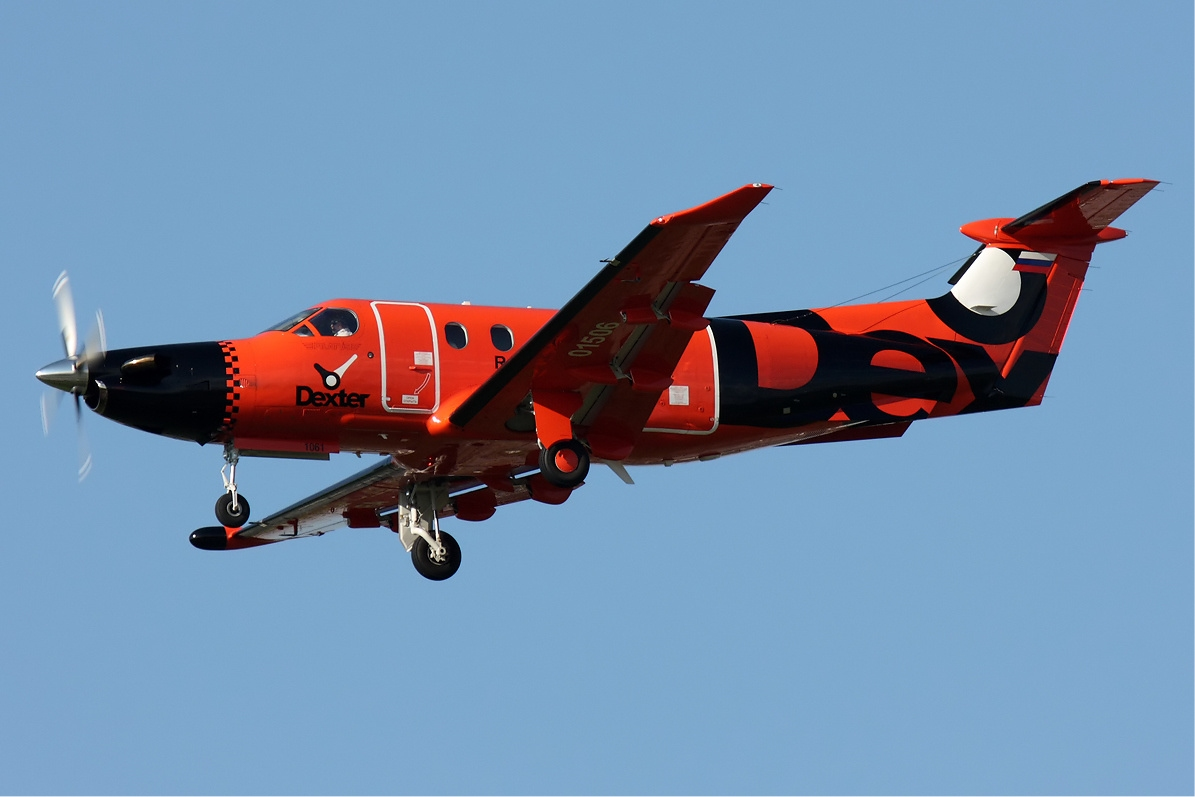 Dexter (Air Management Group) Pilatus PC-12